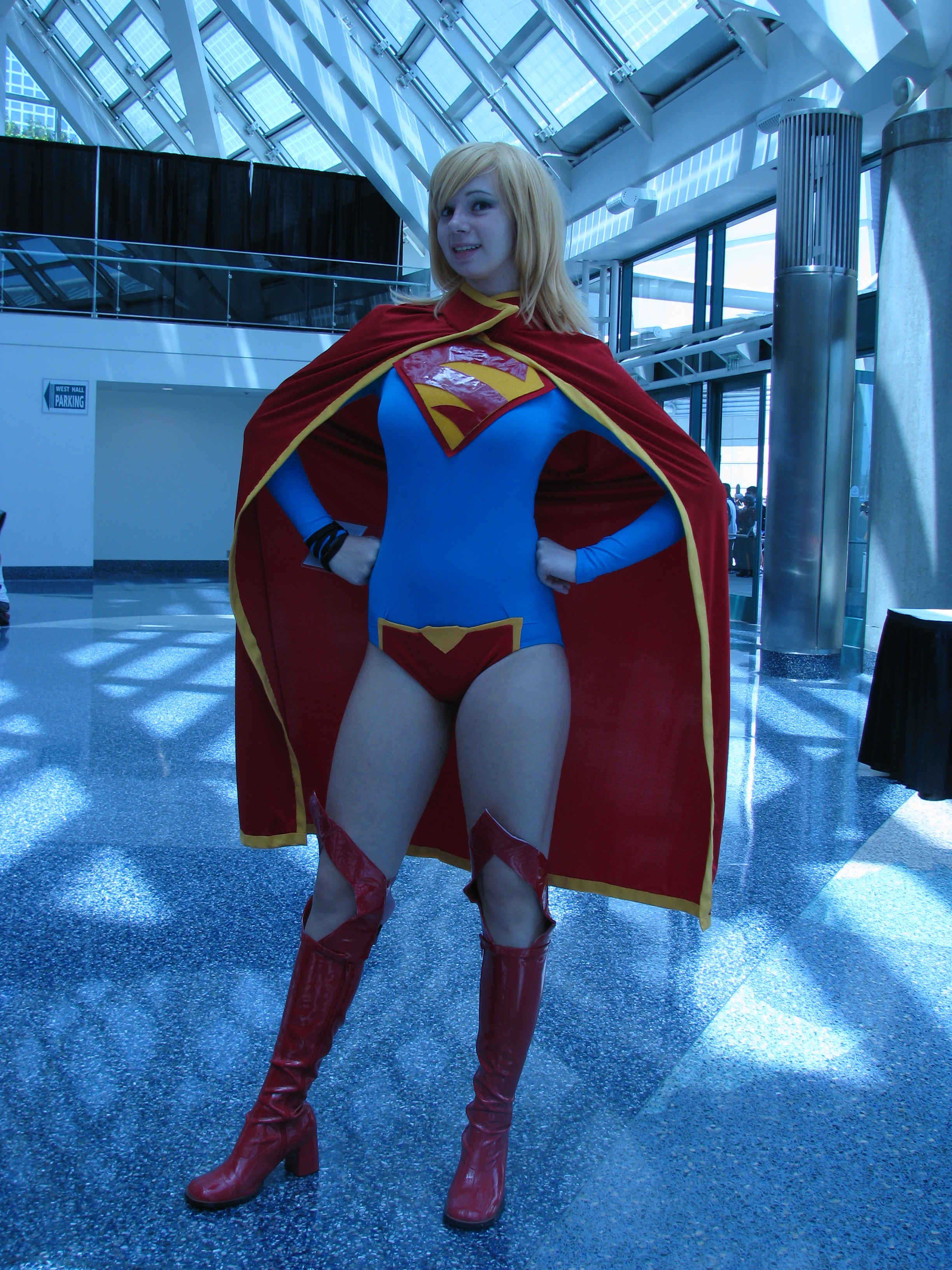 Supergirl cosplay